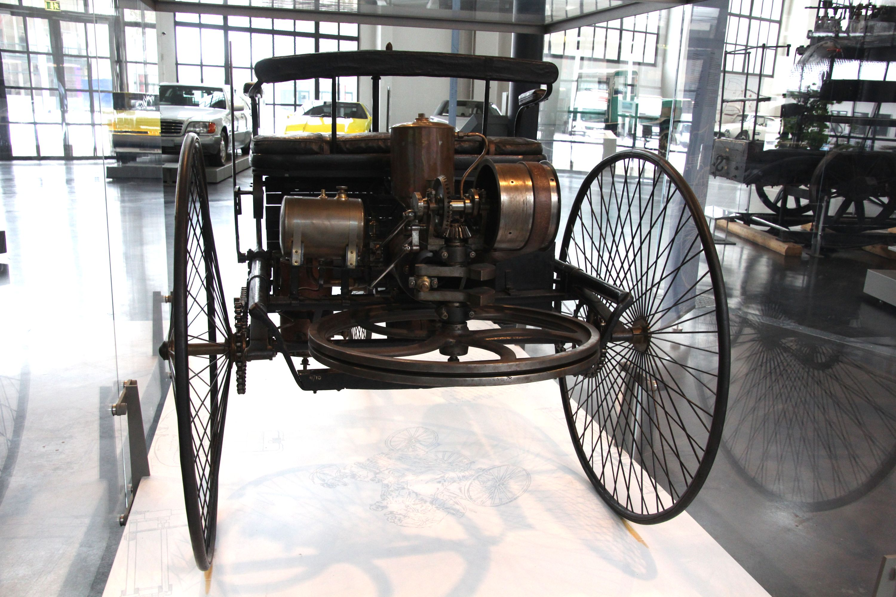 Benz Patent Motorwagen 1 in the traffic centre of the Deutsches Museum in Munich